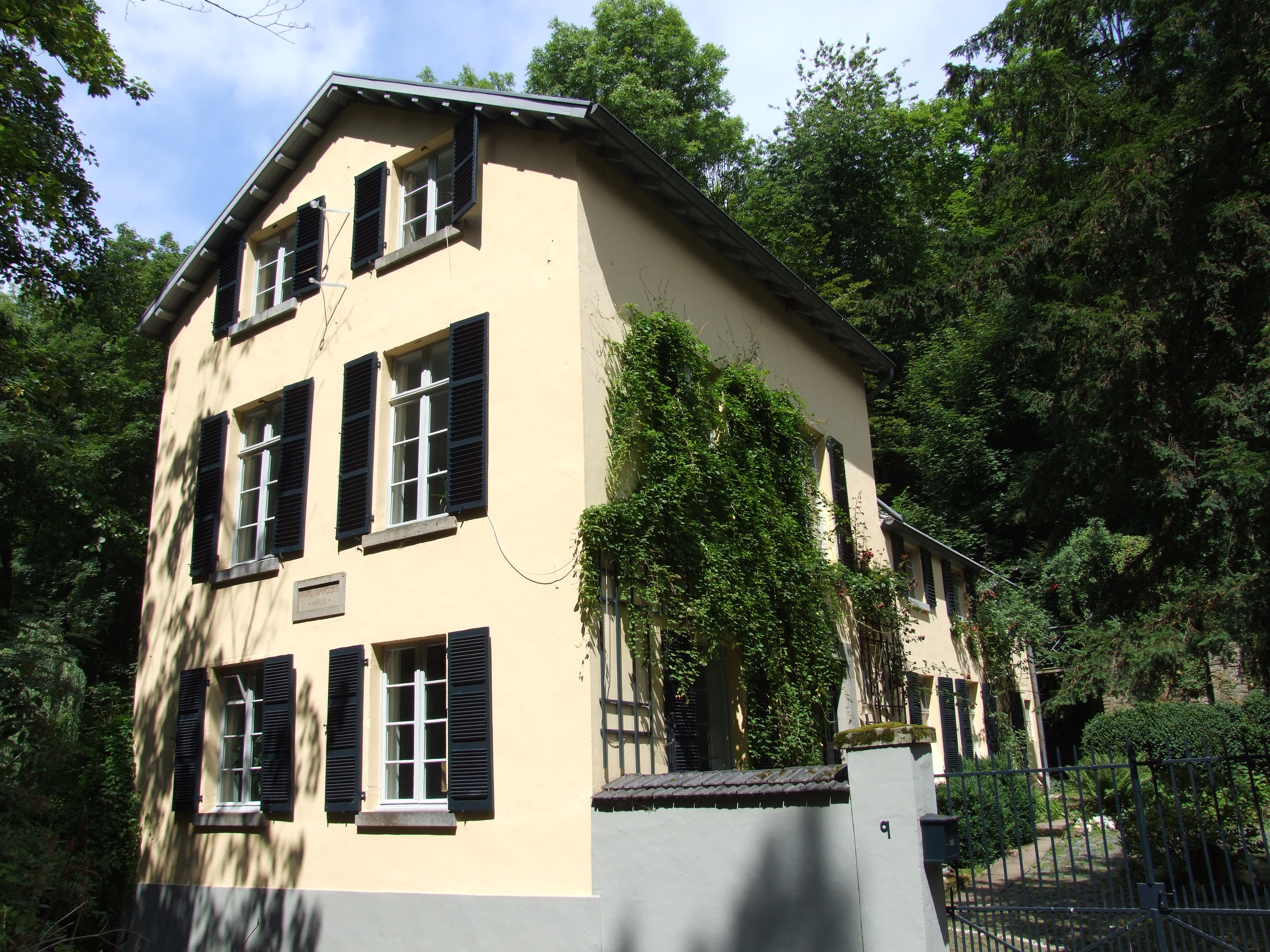 Haus Parzival, Menzenberg, Selhof, North Rhine-Westphalia, Germany